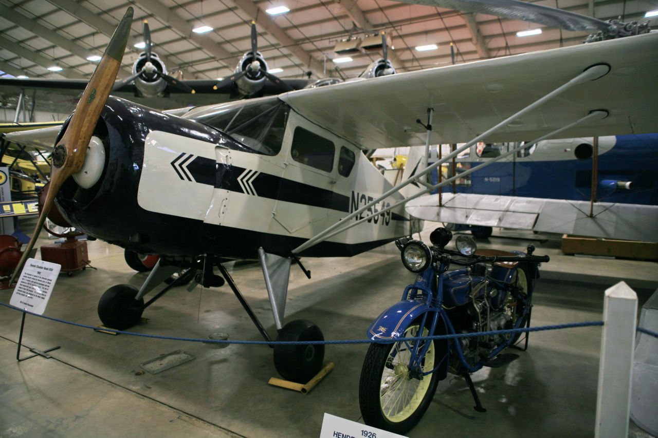 The Rearwin Cloudster is an example of the typical pre-war light aircraft: high wing, taildragger, radial engine.